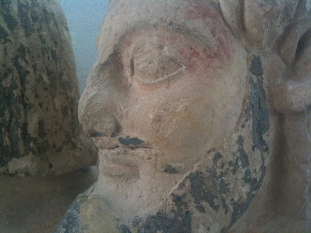 One Head of the Triple-Bodied Monster on the west pediment of the Old Temple of Athena. It's about a creature composed of three male figures joined at the waist. The first figure holds in its left hand water, the second fire, and the third a bird (symbolizing air). The monster ends in a body with shape of serpent. West pediment of the Old Temple of Athena or perhaps of the Hekatompedon. Lenormant fragment. Old Acropolis Museum in Athens (Exhibit Number 35). 570 BC.